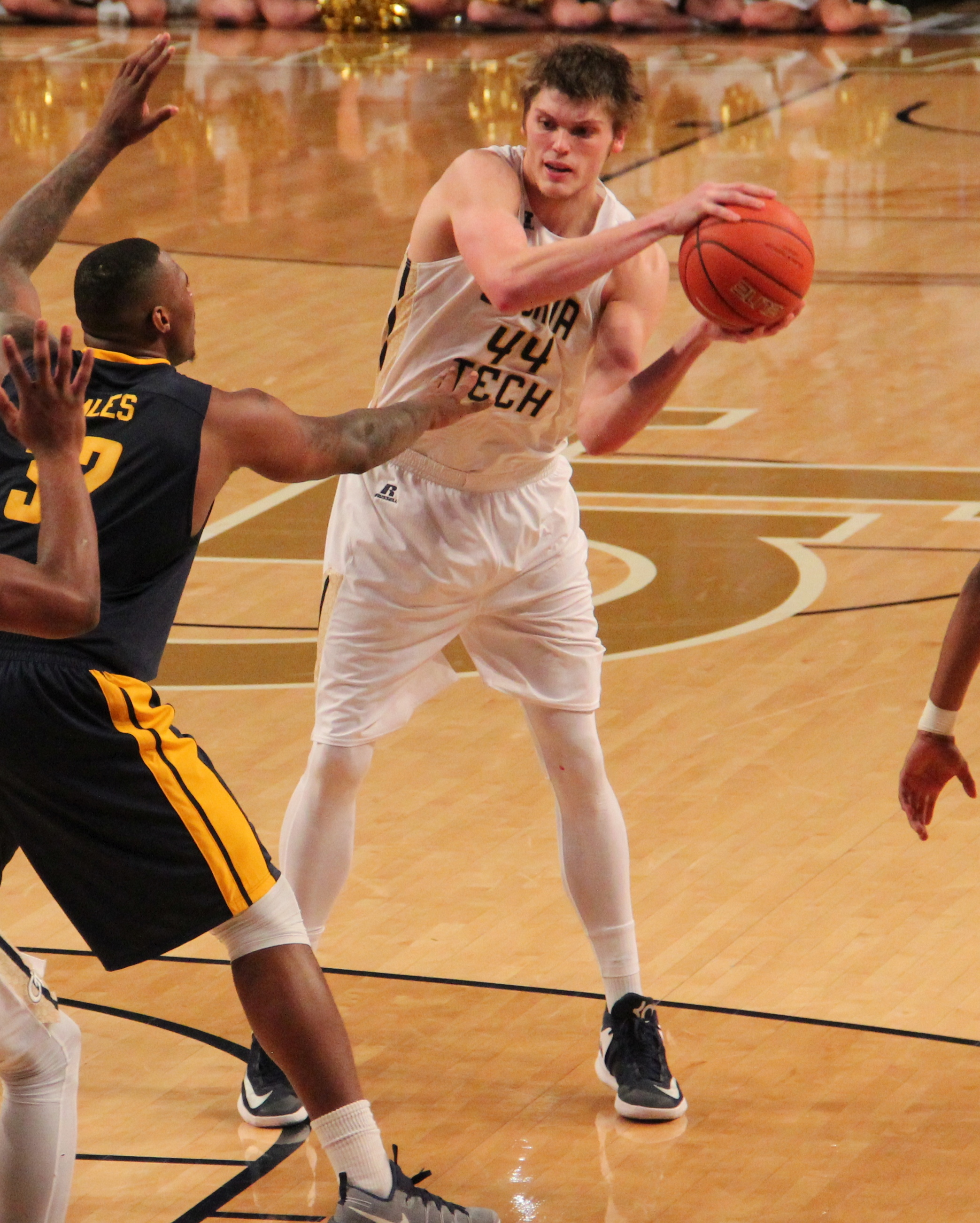 Ben Lammers (#44) in December, 2016